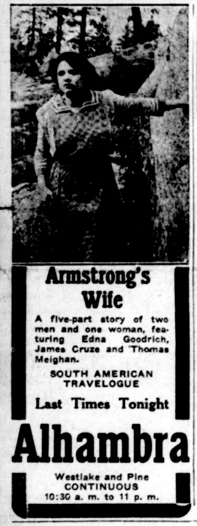 Armstrong's Wife is a 1915 American drama silent film directed by George Melford and written by Margaret Turnbull. This is a newspaper advert for the film.